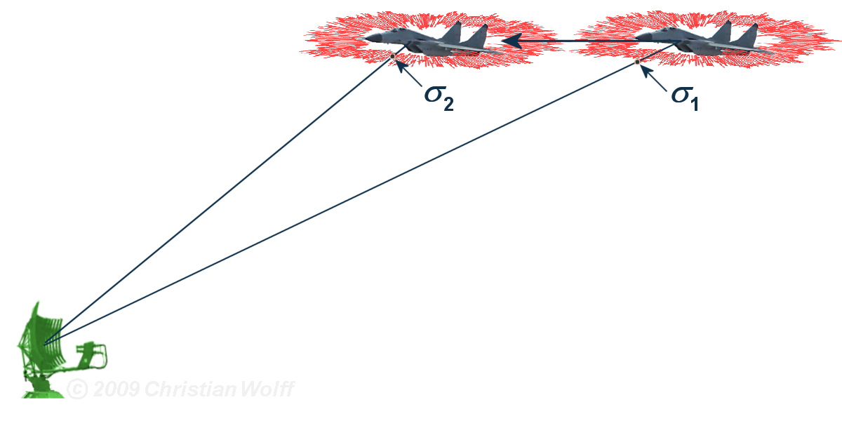 Different aspect angles give different values ​​for the radar cross section of point-like targets. This causes the fluctuation loss in the radar equation.